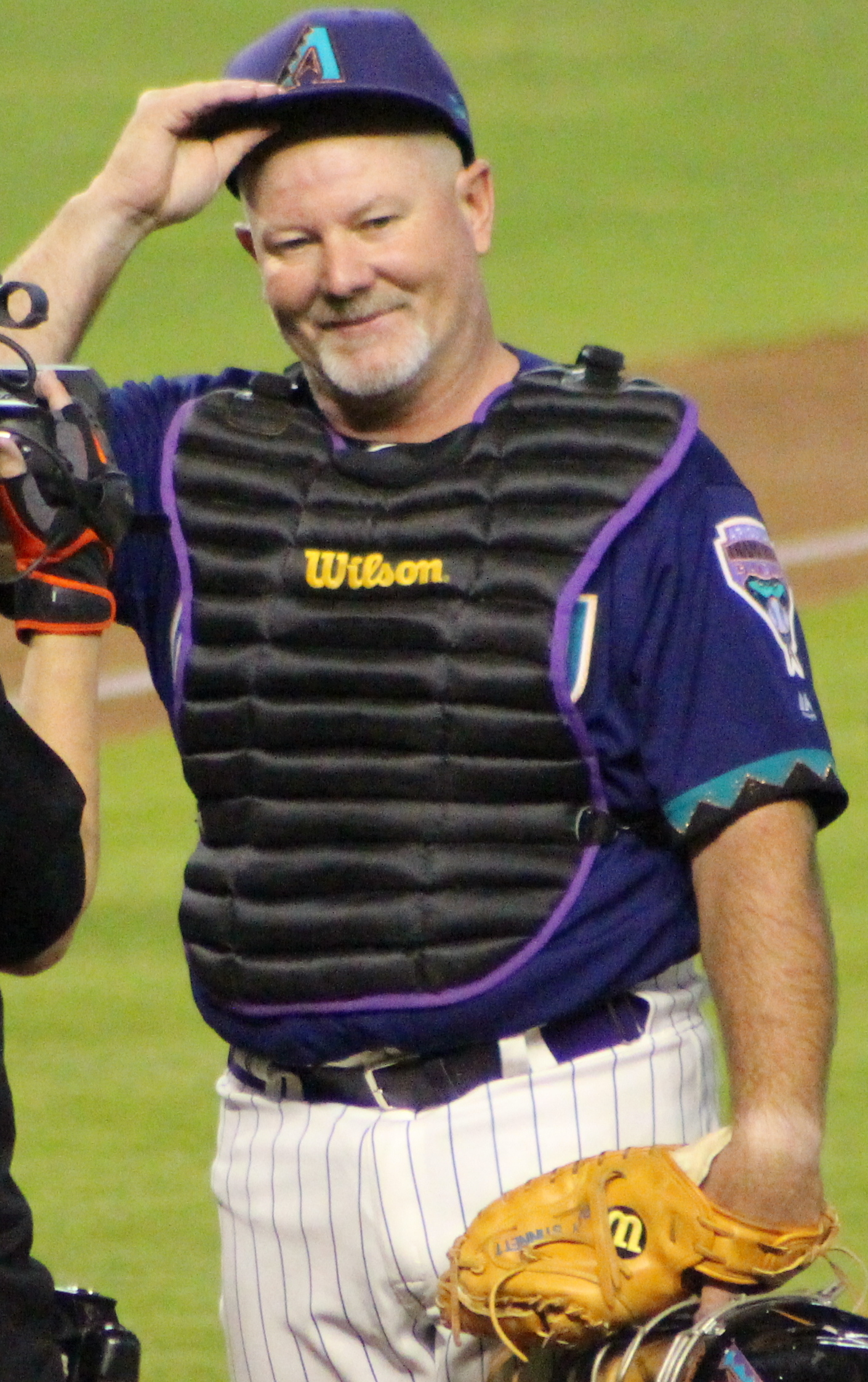 Kelly Stinnett tips his hat to the crowd at Chase Field during player introductions at the 2017 Arizona Diamondbacks Alumni Game. Ernie Young and Andy Stankiewicz are on either side of him.